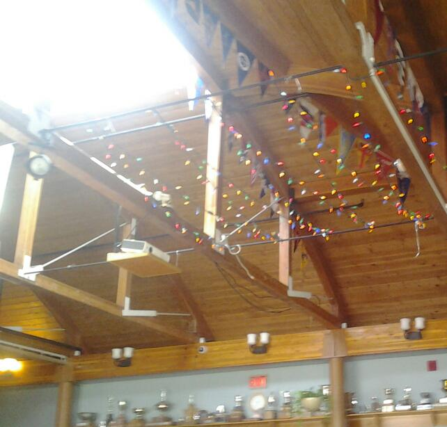 Nepean Sailing Club, Lac Deschenes, Dick Bell Park, Ottawa, Ontario, Canada: main lounge roof trophies and burgees.